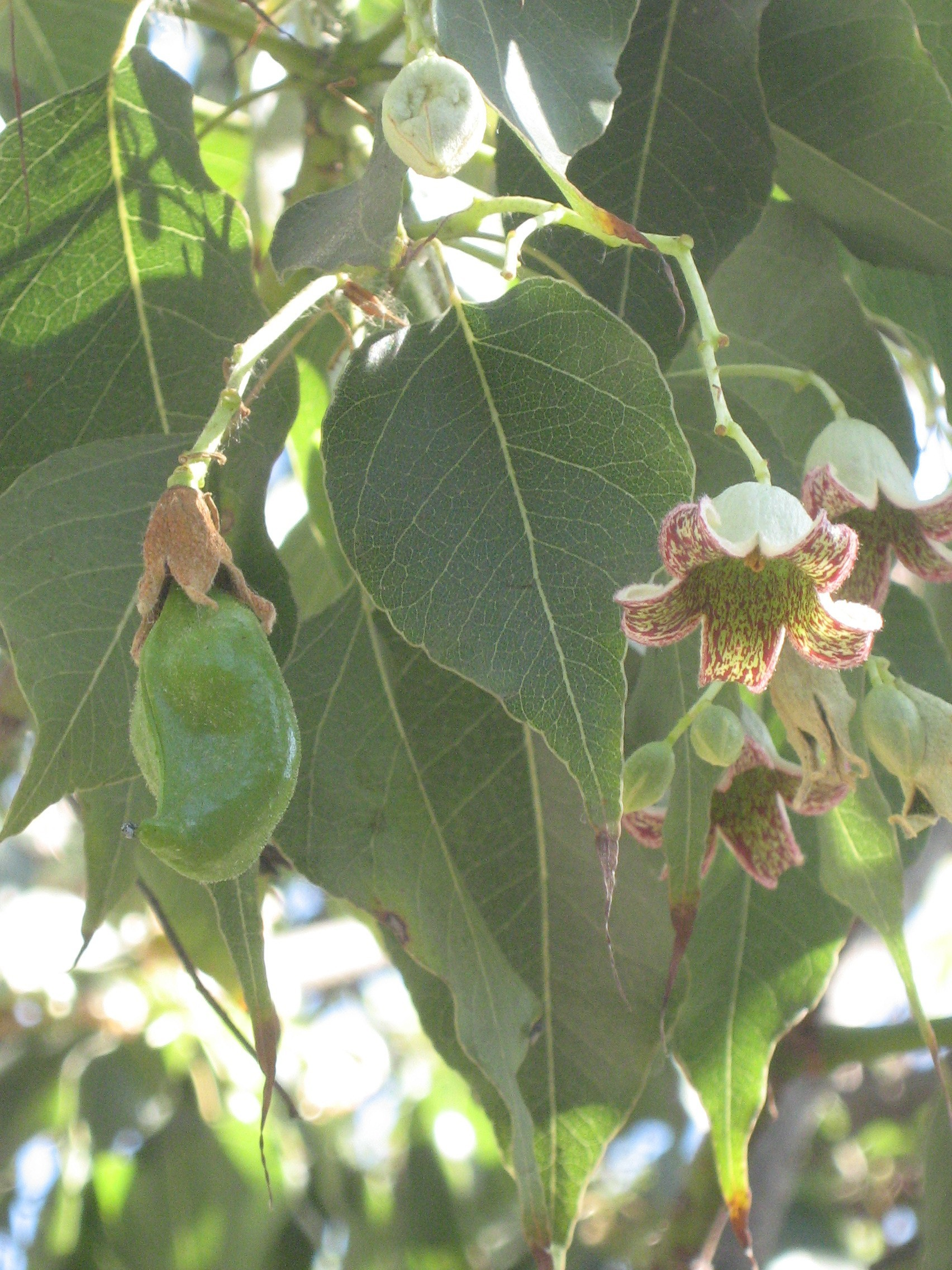 Brachychiton populneus, (Sterculiaceae) ornamental